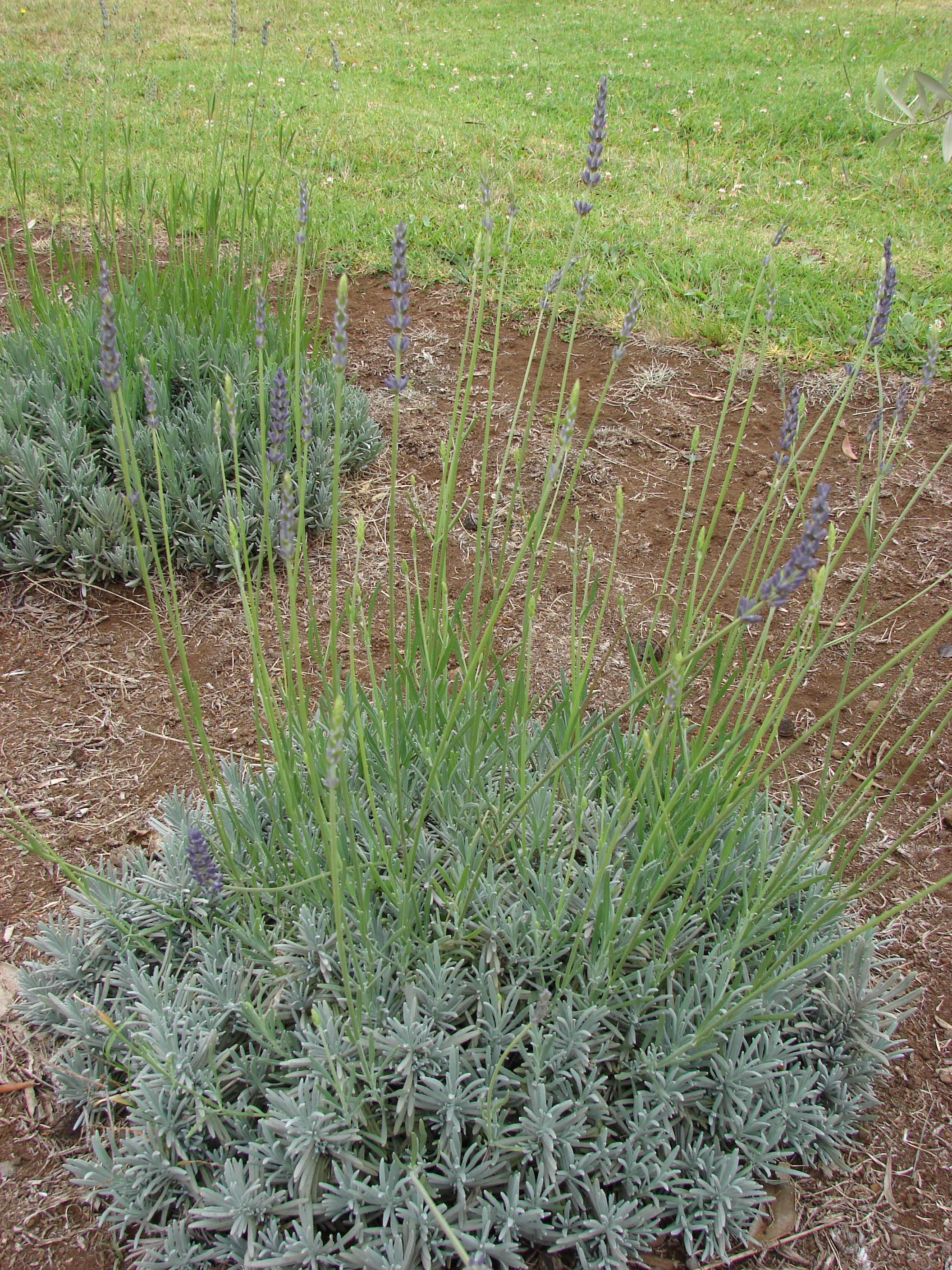 Lavandula angustifolia (flowering habit). Location: Maui, Waipoli Rd Kula